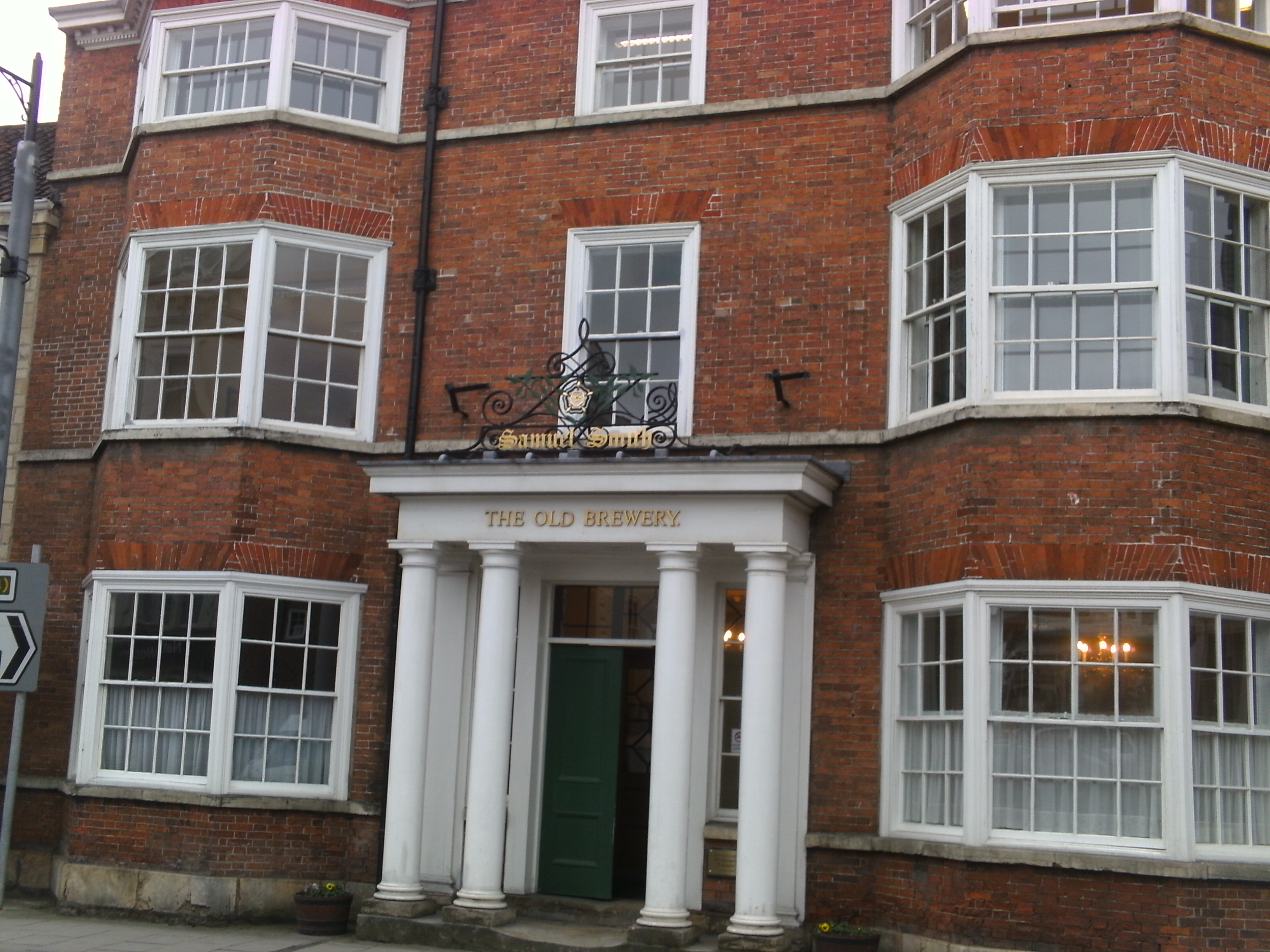 The Samuel Smiths Old Brewery in Tadcaster, North Yorkshire, UK.